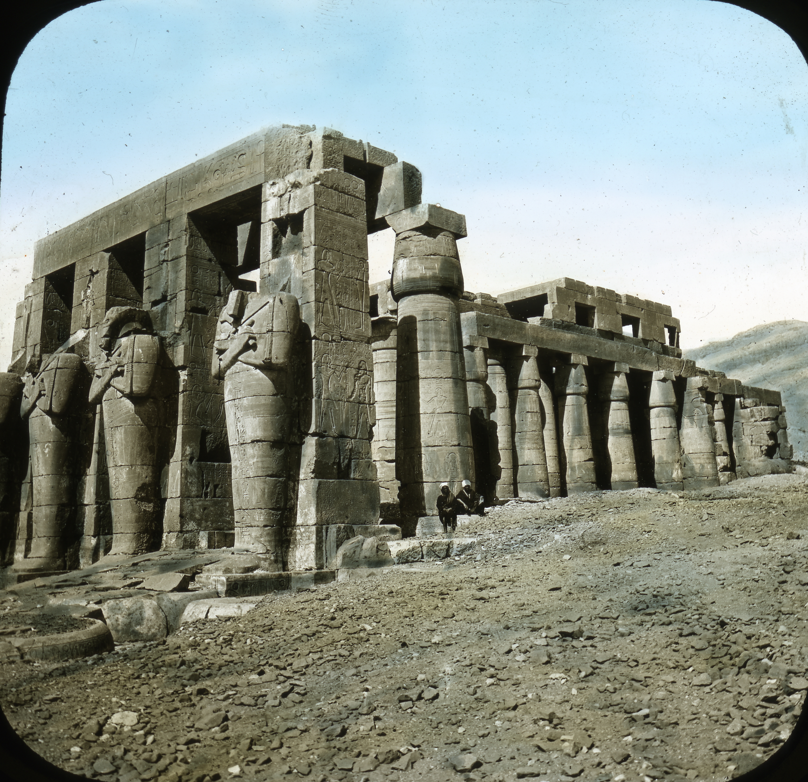 Thebes: Ramesseum., n.d., This slide colored by Joseph Hawkes. Brooklyn Museum Archives (S10.08 Thebes, image 9926).